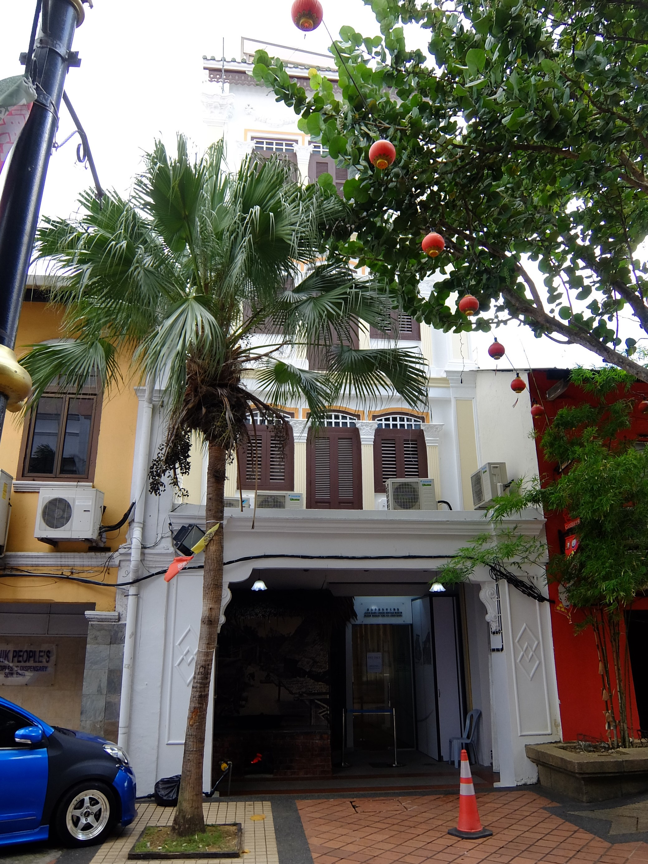 Johor Bahru Chinese Heritage Museum, Chinatown, Johor Bahru, Johor, Malaysia